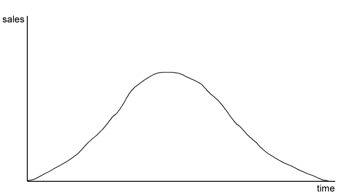 Shows the graph of a continuous simulation of sales of a certain product.